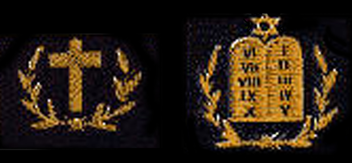 Uniform insignia for Christian and Jewish chaplains serving with the U.S. Merchant Marine. According to officers in the Merchant Marine wear uniforms almost identical to those of the U.S. Navy, but have "distinctive wreaths" on cap and sleeve insignia, and on shoulder marks (the marks on shoulder boards). Today's Navy chaplains assigned to Merchant Marines (primarily at the Merchant Marine Academy) seem to wear their Navy uniforms, however these insignia are still on file with the Merchant Marines. Addional info, from email from editor of May 27, 2011: The insignia are circa 1943. The US maritime service was created in 1938 and was staffed with active or retired Coast Guard and Navy personnel. Early 1942 it was under Coast guard. In mid 1942 staffing was with "civilian" personnel under the aegis of the newly formed War Shipping Administration. Staff had to leave the Coast Guard to remain in their positions. The uniforms worn by staff and trainees were based on Coast Guard. They would have been considered "civilians" at the time.